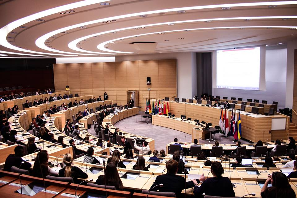 International North Model United Nations - General Assembly